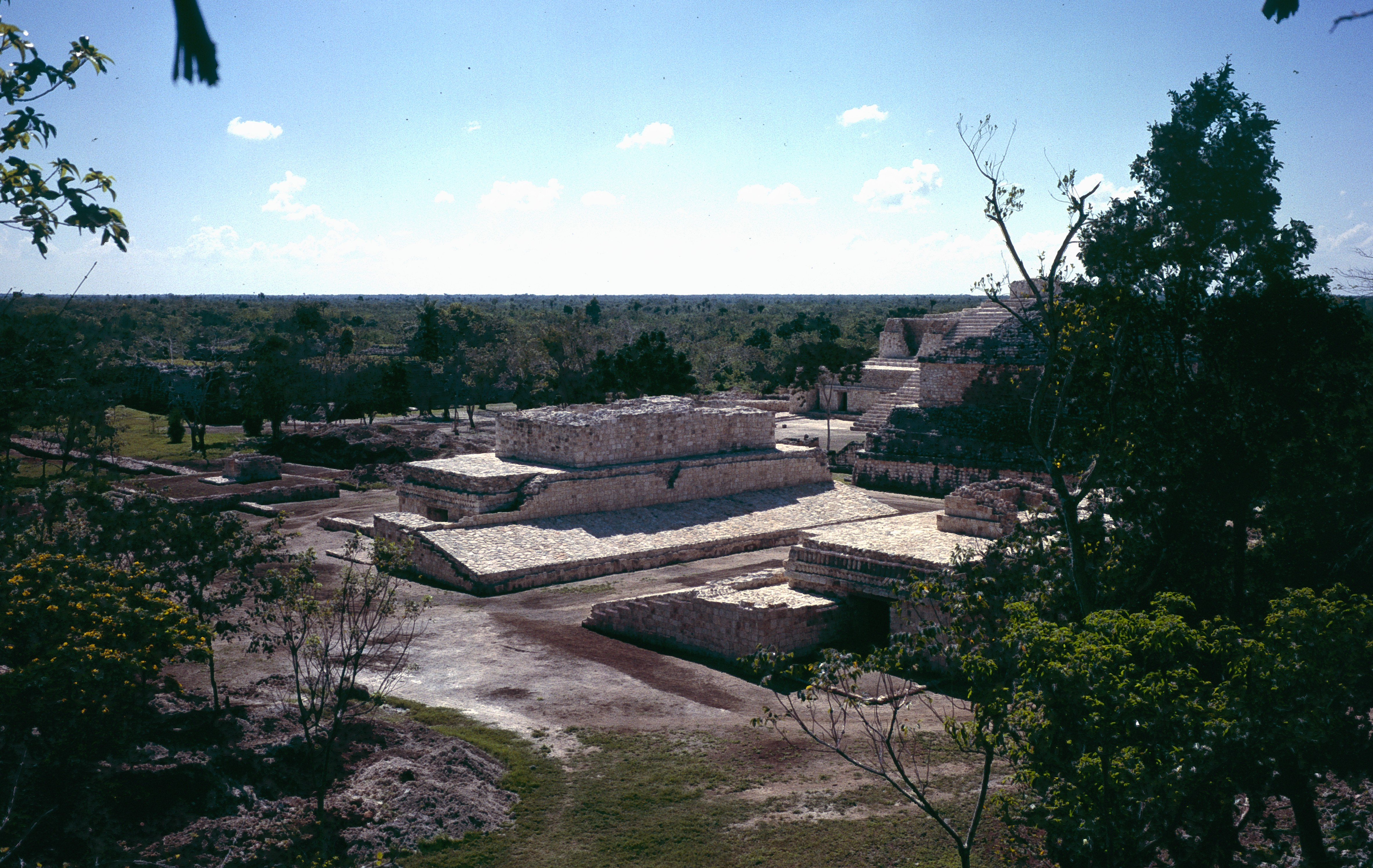 Ek Balam, Yucatan, Mexico: Ballcourt